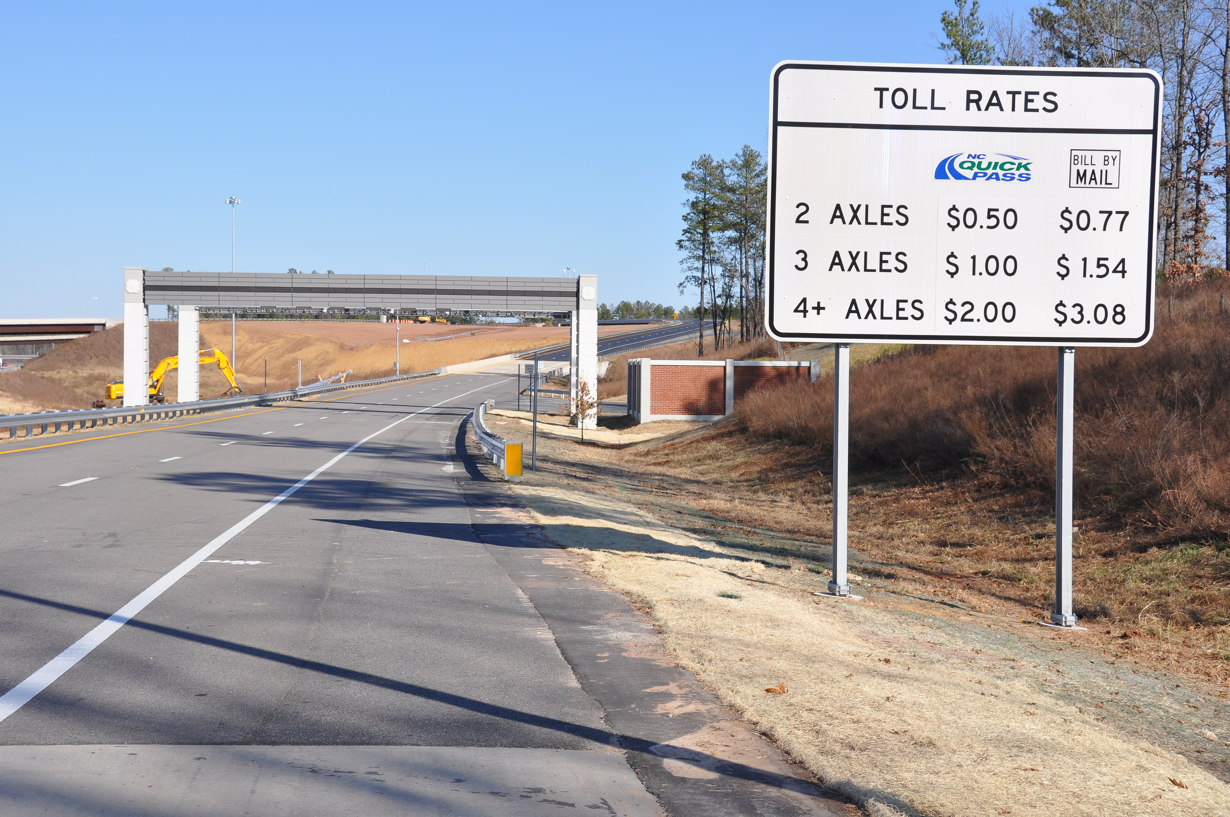 Toll rates for the Triangle Expressway along North Carolina Highway 147 (NC147).